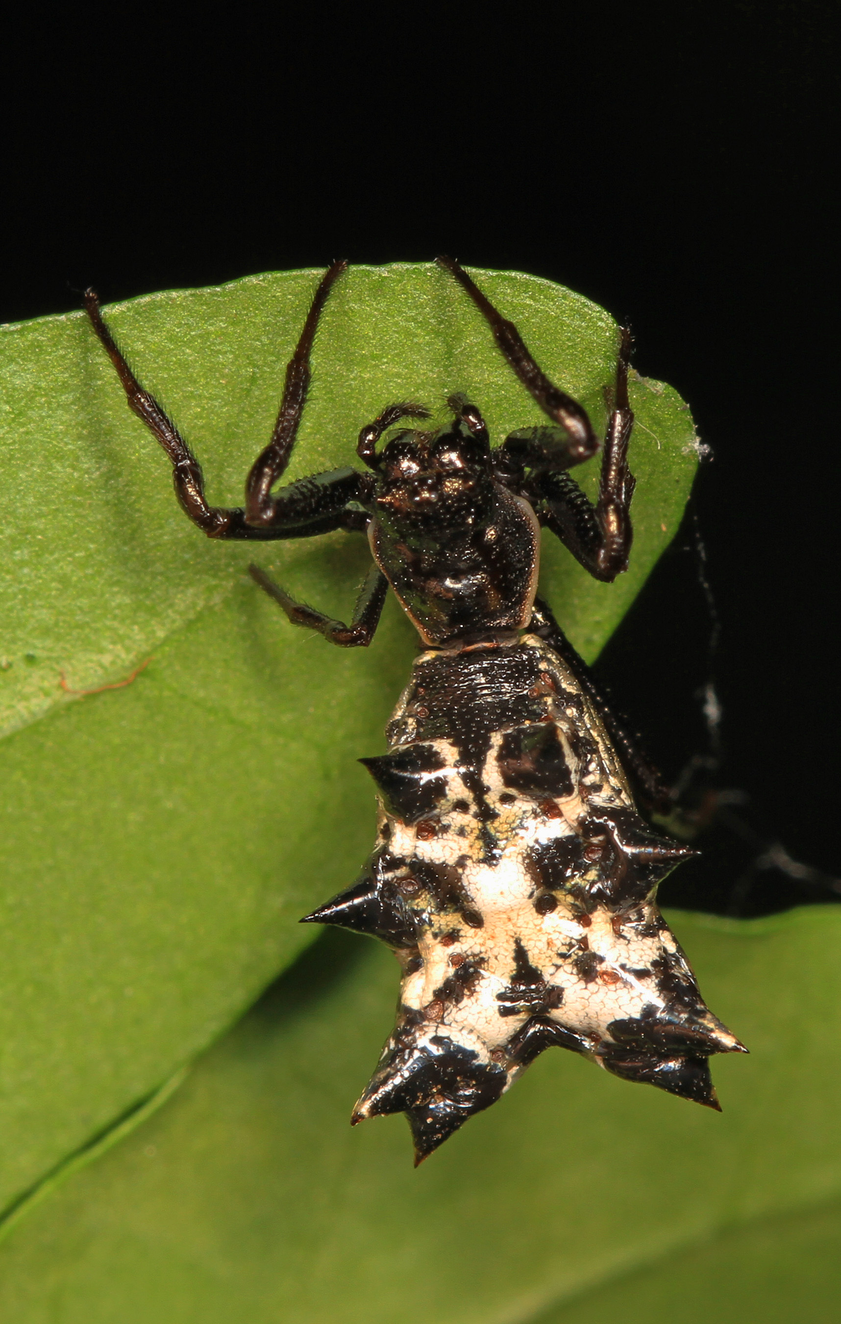 Spined Micrathena - Micrathena gracilis, Julie Metz Wetlands, Woodbridge, Virginia